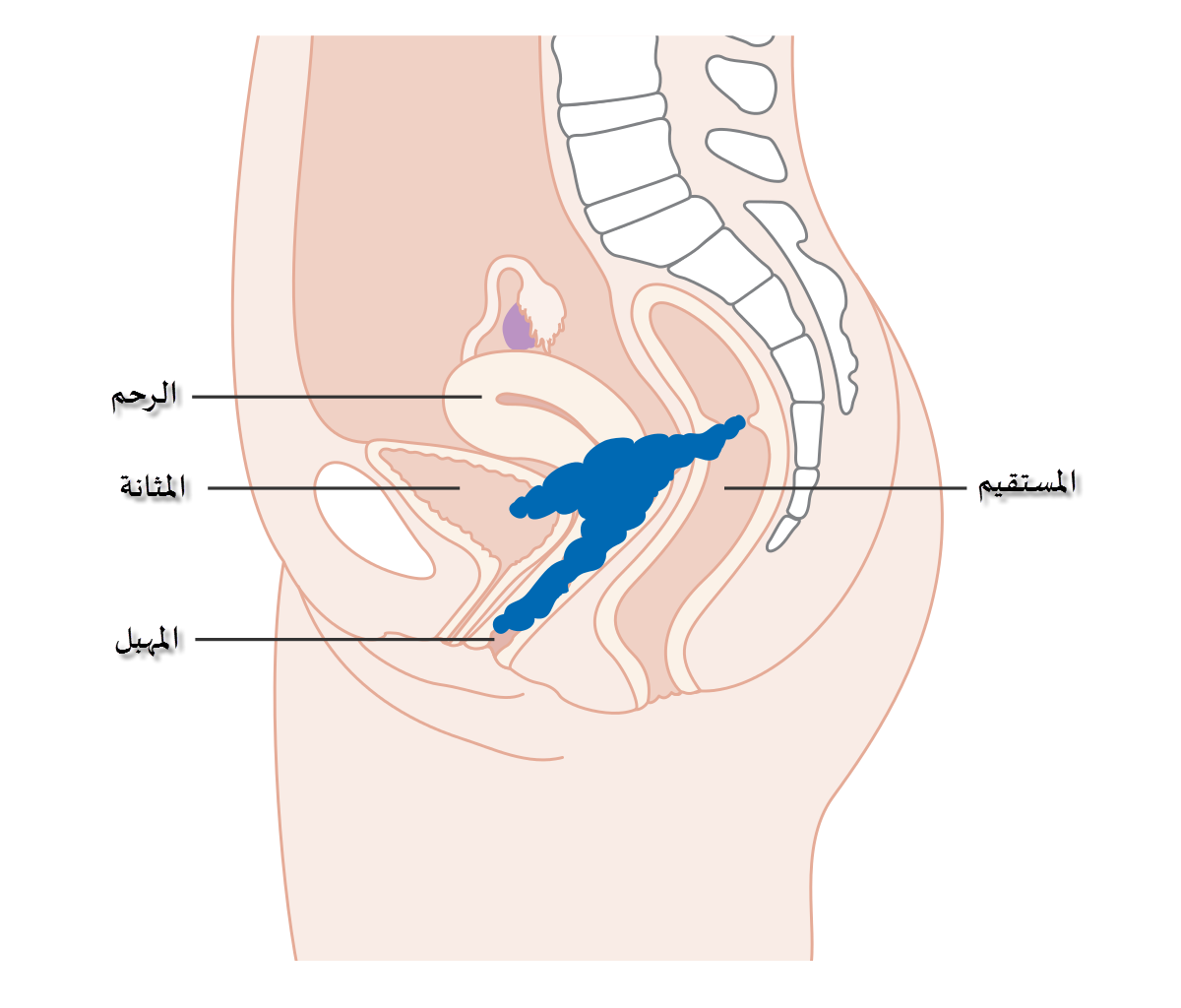 Diagram showing stage 4A cervical cancer.